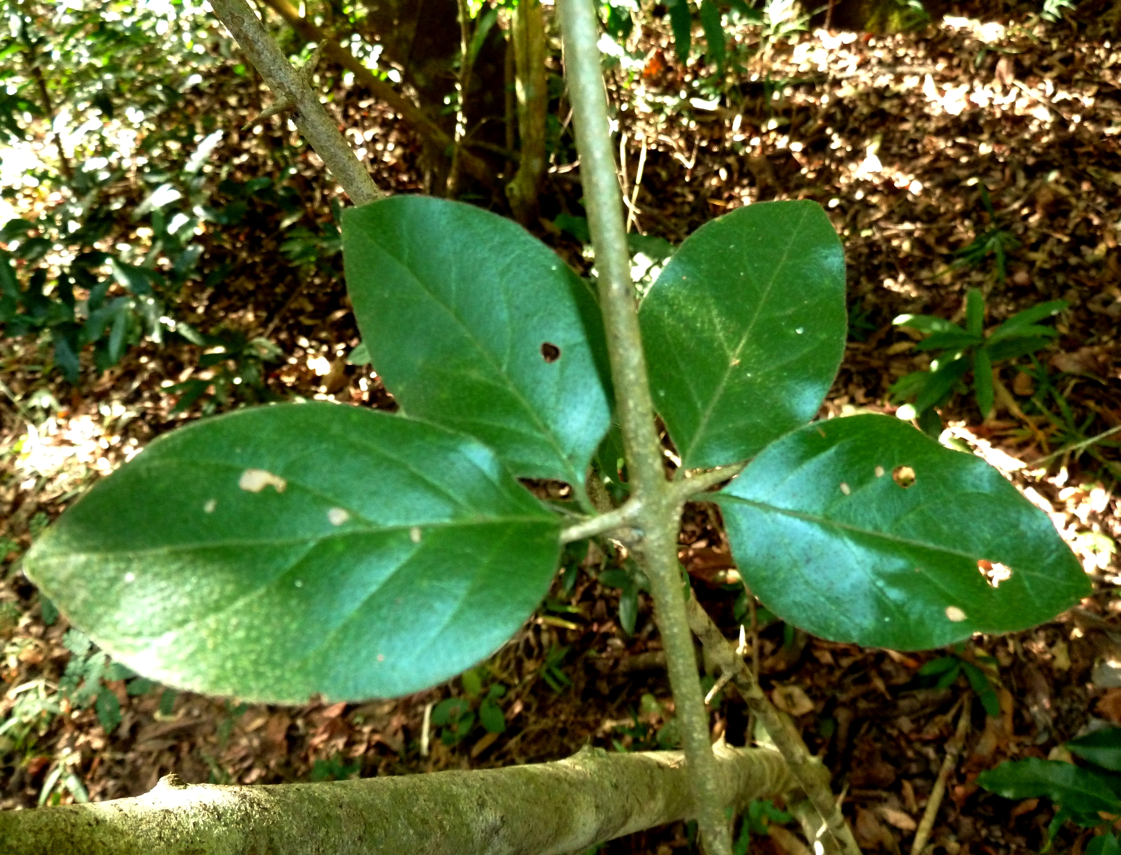 Criss-cross turkey-berry in Krantzkloof Nature Reserve, KwaZulu-Natal